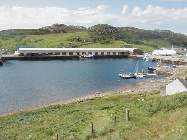 The Fish Market at Kinlochbervie